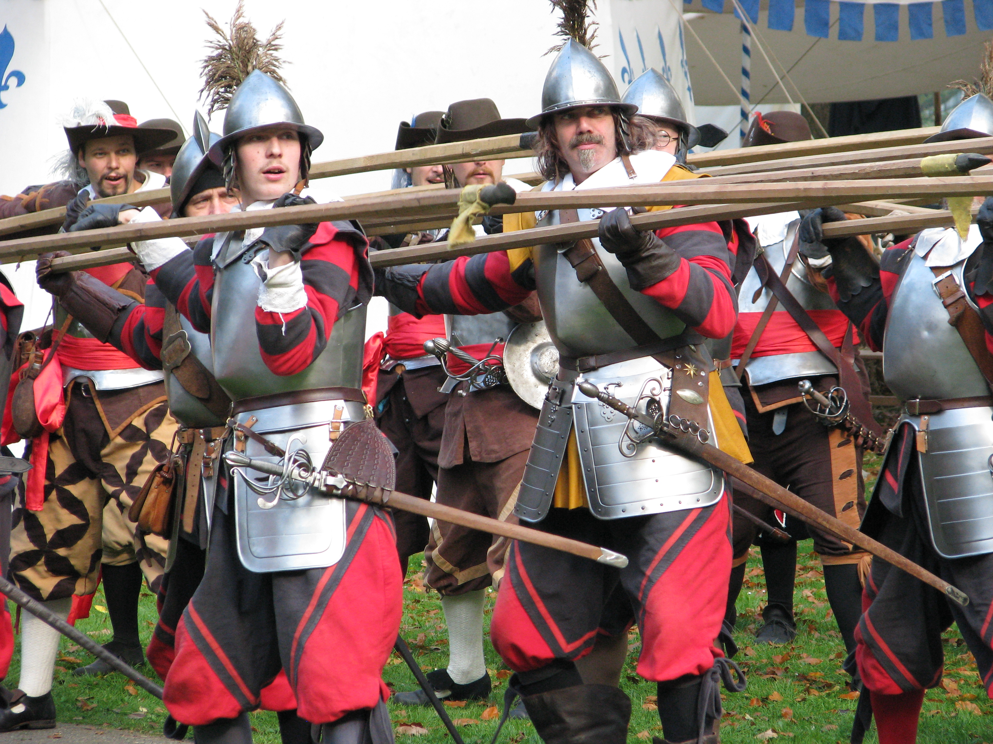 A unit pikemen practices movements before the battle.